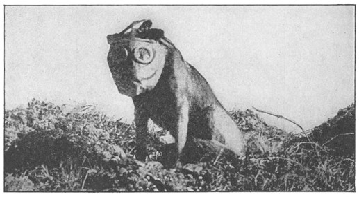 The caption reads, "A dog with a gas mask. This dog was employed by a sanitary corps in locating wounded soldiers."